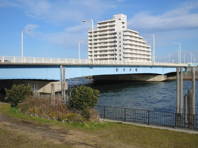 Shin-Imai-Bashi, Edogawa-ku, Tokyo, Japan